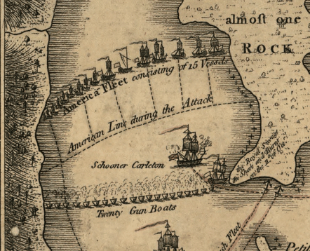 Battle of Valcour Island, en:1776, showing position of American ships on Lake Champlain between the New York State coastline and Valcour Island on the right. From: Library of Congress, Geography and Map Division. According to the LOC source website[1]: Copyright and Restrictions Most maps in the Map Collections materials were either published prior to 1922, produced by the United States government, or both (see catalogue records that accompany each map for information regarding date of publication and source). A few have permission from the copyright holders as noted in the descriptive record. The Library of Congress is providing access to these materials for educational and research purposes and is not aware of any U.S. copyright protection (see Title 17 of the United States Code) or any other restrictions in the Map Collection materials. Note that the written permission of the copyright owners and/or other rights holders (such as publicity and/or privacy rights) is required for distribution, reproduction, or other use of protected items beyond that allowed by fair use or other statutory exemptions. Responsibility for making an independent legal assessment of an item and securing any necessary permissions ultimately rests with persons desiring to use the item. See our Legal Notices for additional information and restrictions.